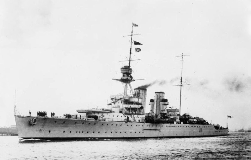 The Hawkins Class heavy cruiser HMS FROBISHER